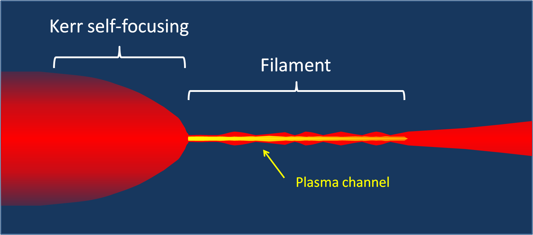 Filamentation of a femtosecond laser pulse.